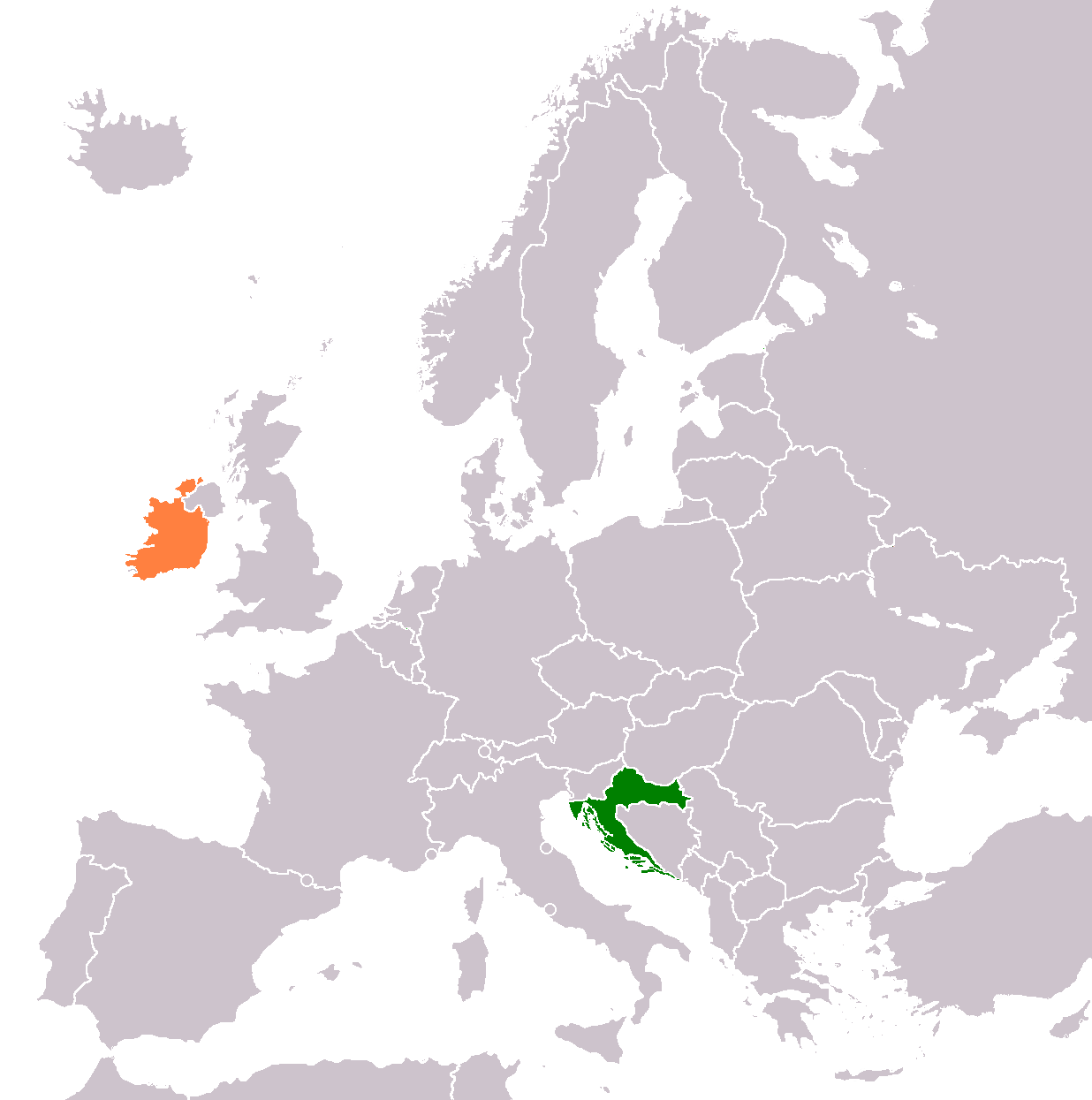 Croatia-Ireland locator map.